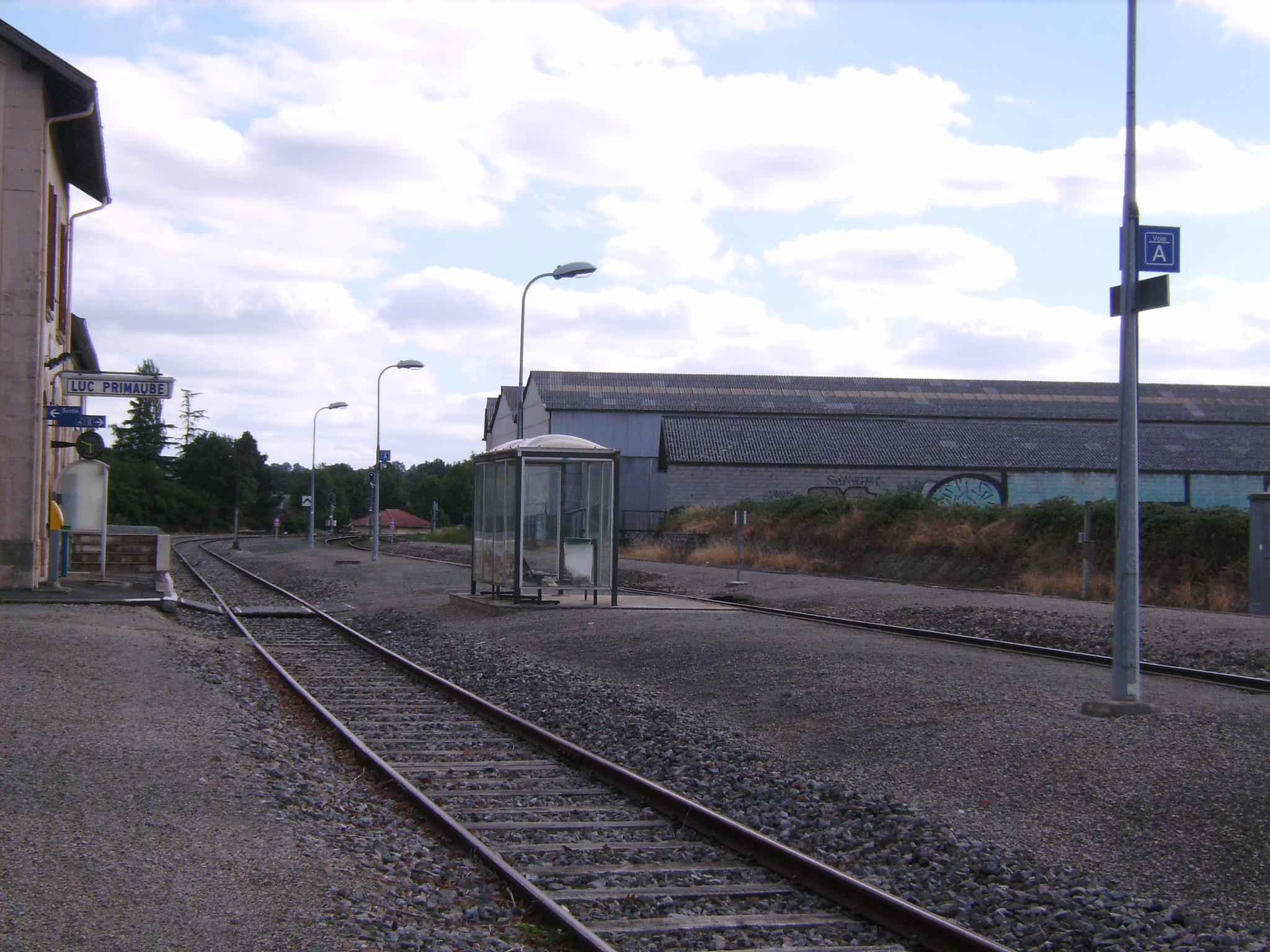 Train station, city of Luc-la-Primaube.